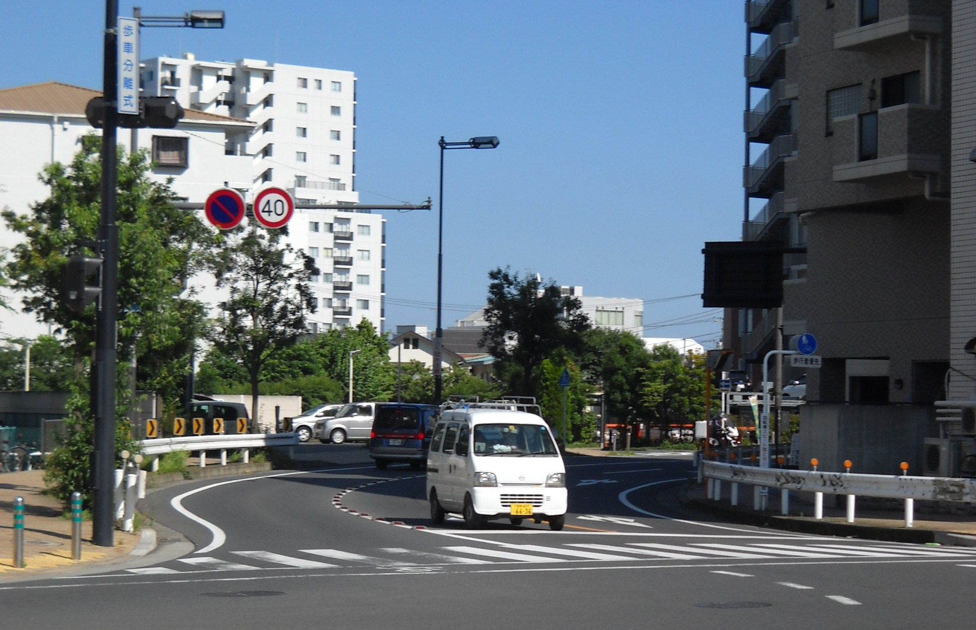 Start of Kanagawa prefectural road route 308, Fujisawa city, Kanagawa pref., Japan